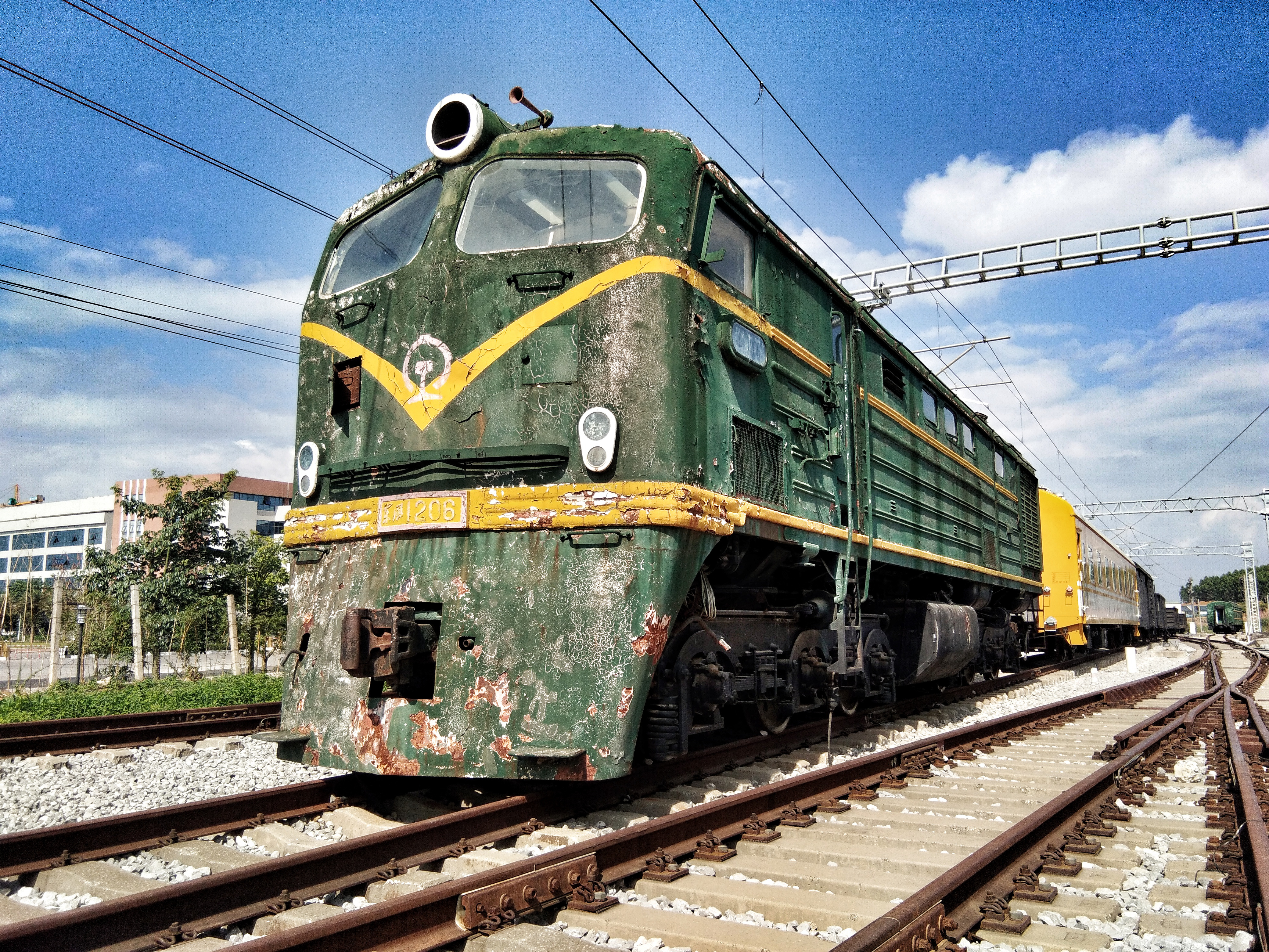 China Railways DF 1206 is in Liuzhou Railway Vacational Technical College, June 2018.